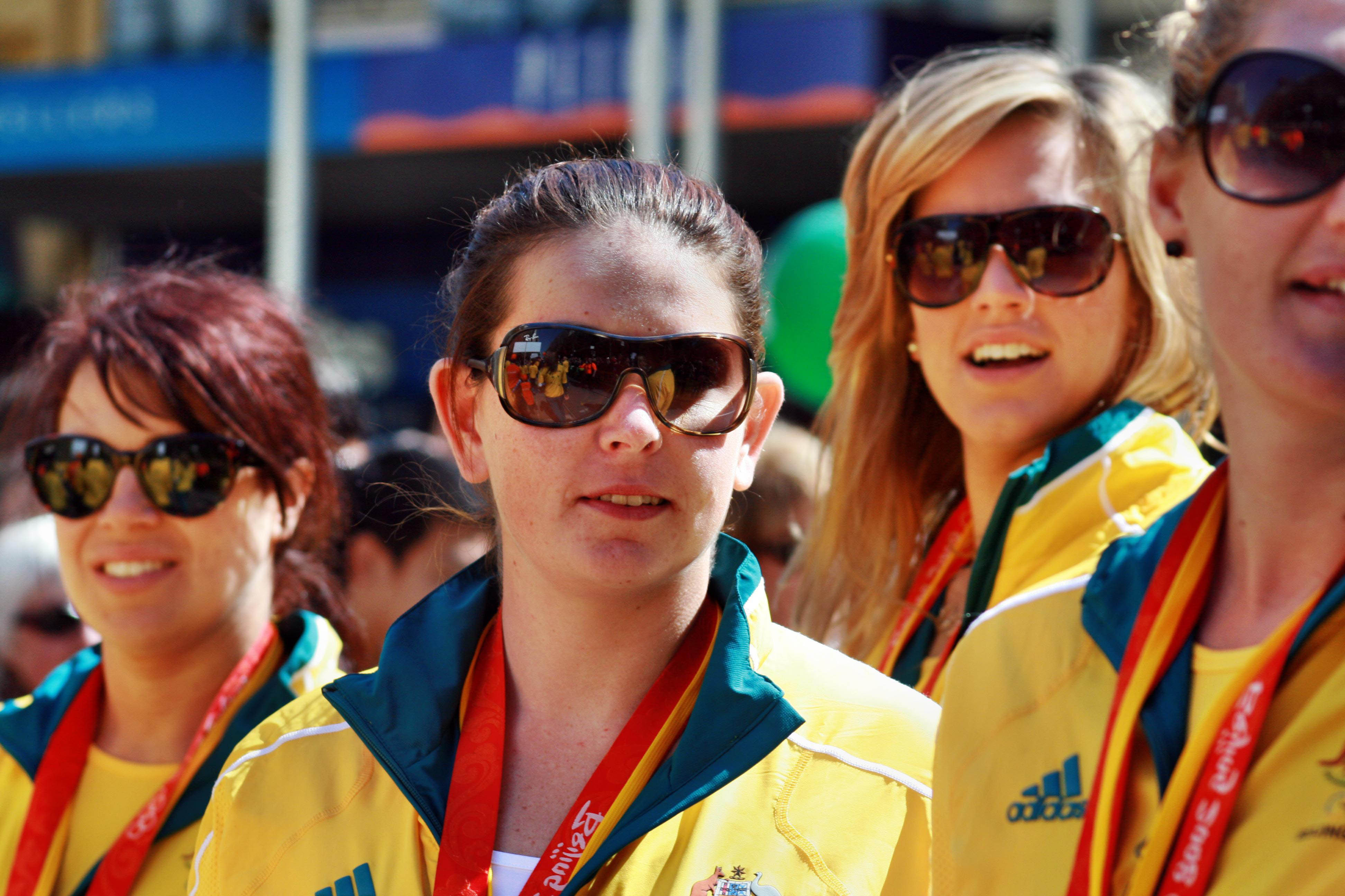 Australian women's water polo players (left to right) Mia Santormito, Alicia McCormack, Gemma Beadsworth, Nikita Cuffe.